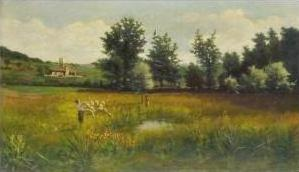 Paisaje de Olot, 1898 paining of Marian Vayreda